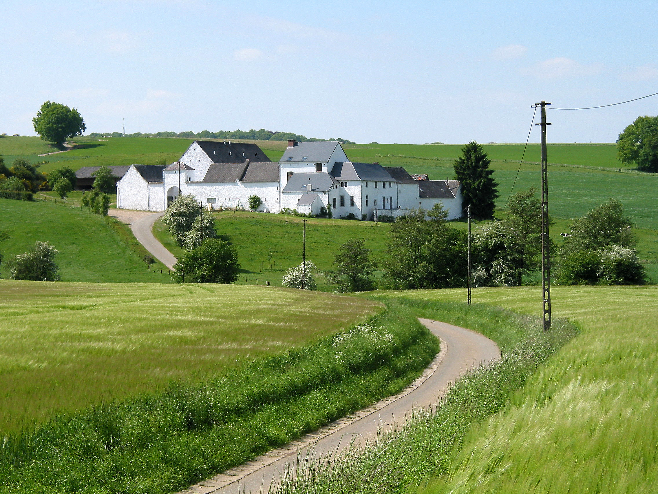 Mozet (Belgium), the Baseille farm.